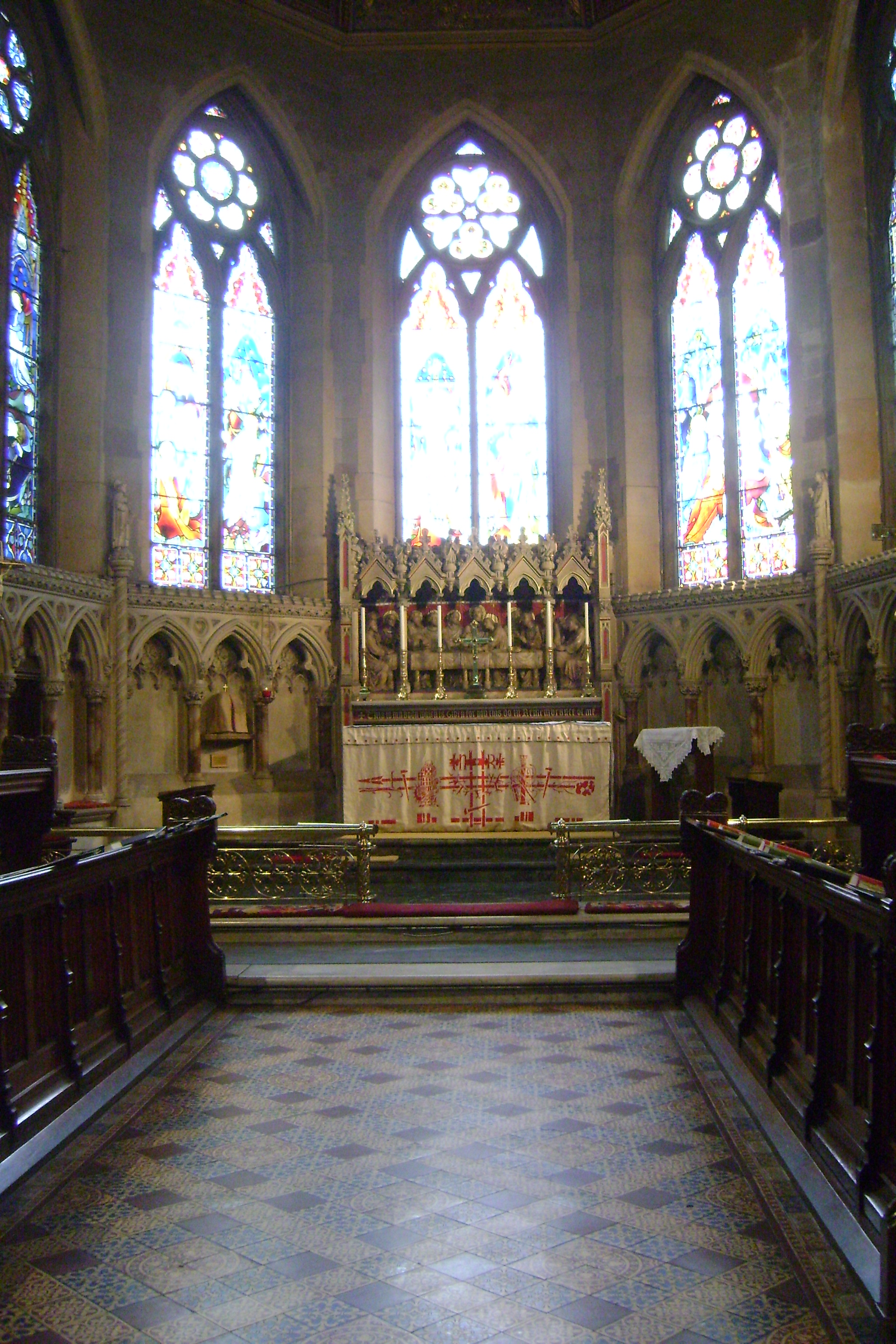 Church of England parish church of St Augustine of Hippo, Edgbaston, Birmingham: interior of apsidal chancel